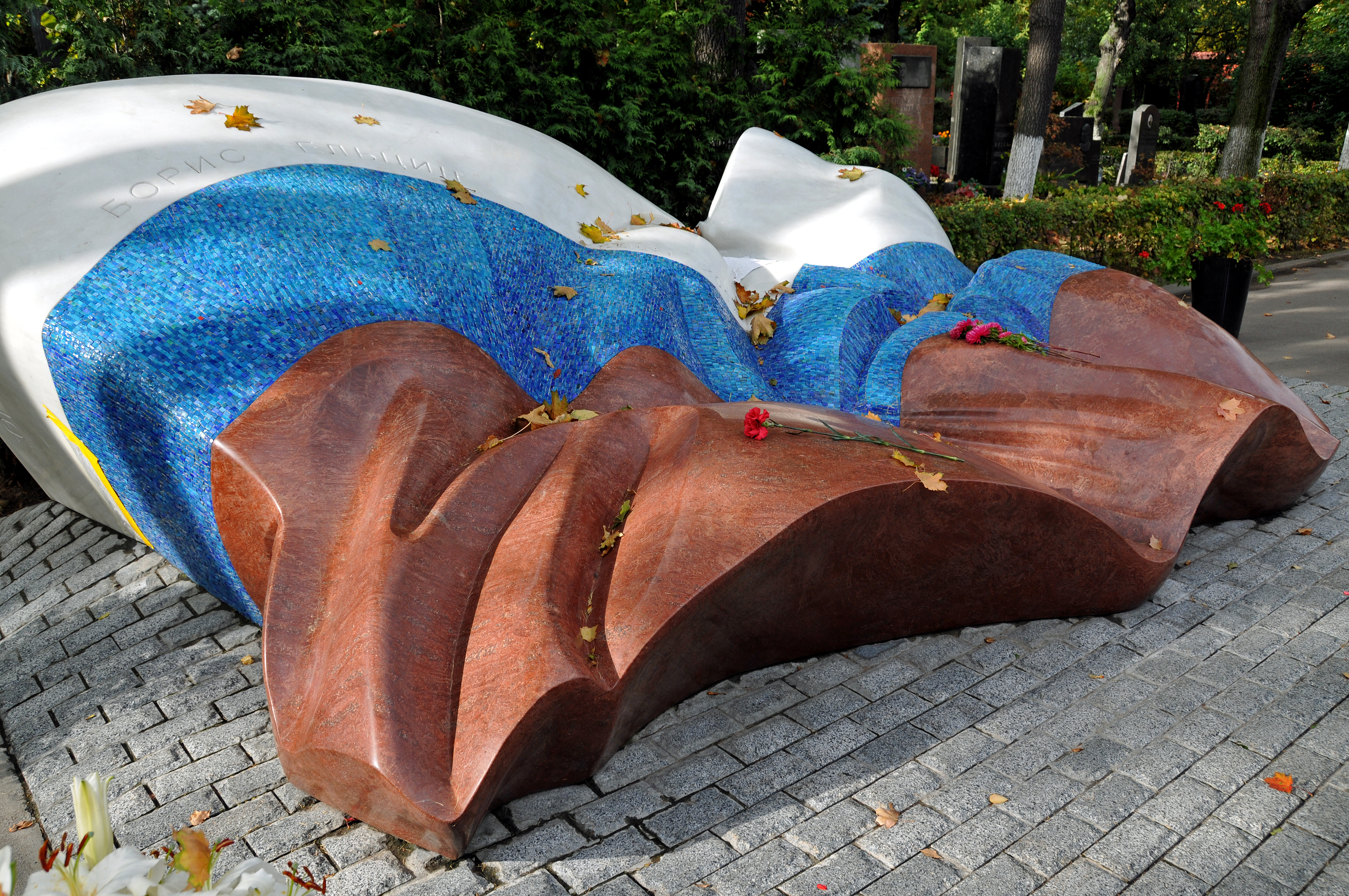 PLEASE, no multi invitations in your comments. Thanks. I AM POSTING MANY DO NOT FEEL YOU HAVE TO COMMENT ON ALL - JUST ENJOY. Boris Yeltsin - first President of the Russian Federation. The headstone is suppose to be the Russian Flag.